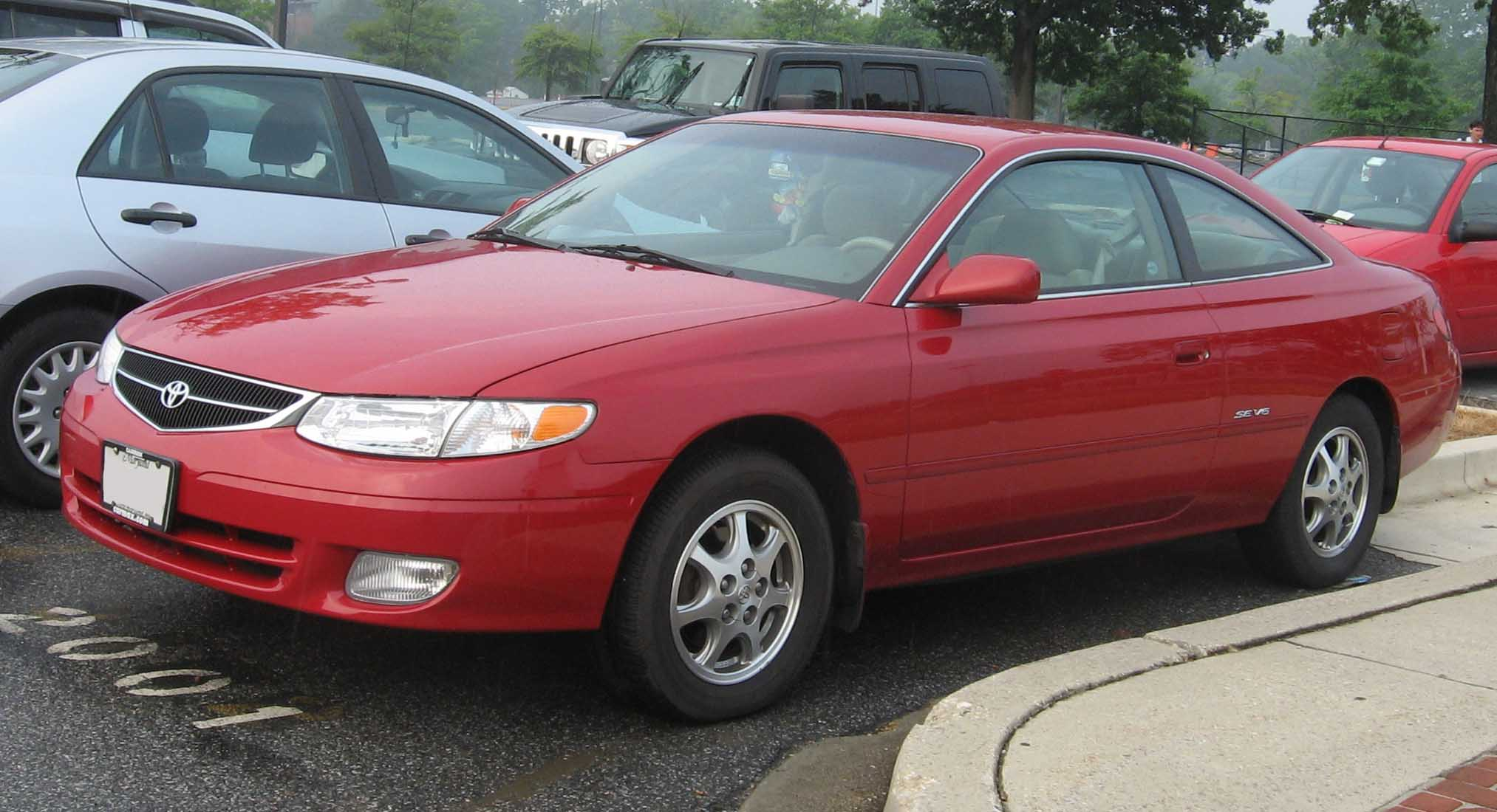 1999-2001 Toyota Solara photographed in USA.